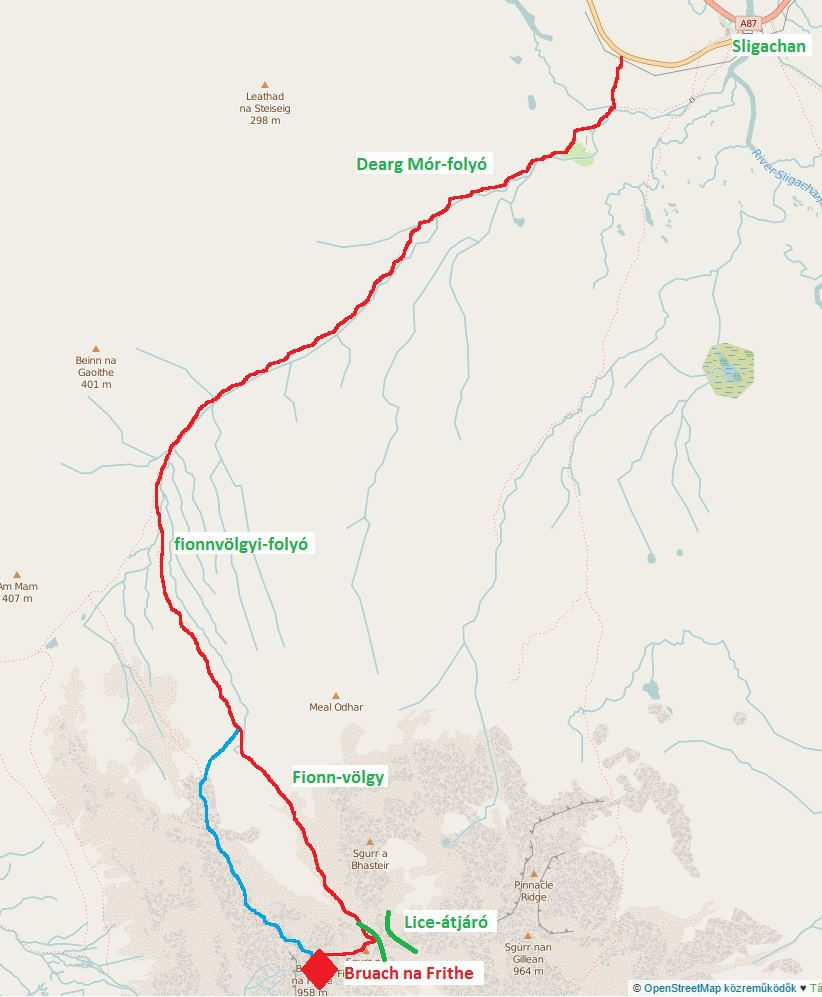 Trails leading to the summit of Bruach na Frithe.